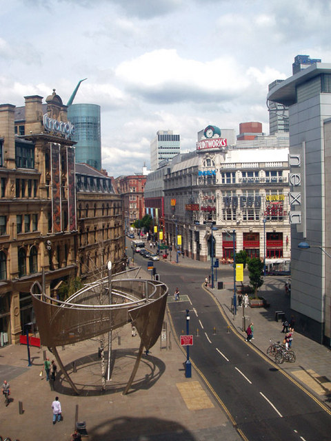 Central Manchester taken from the Wheel